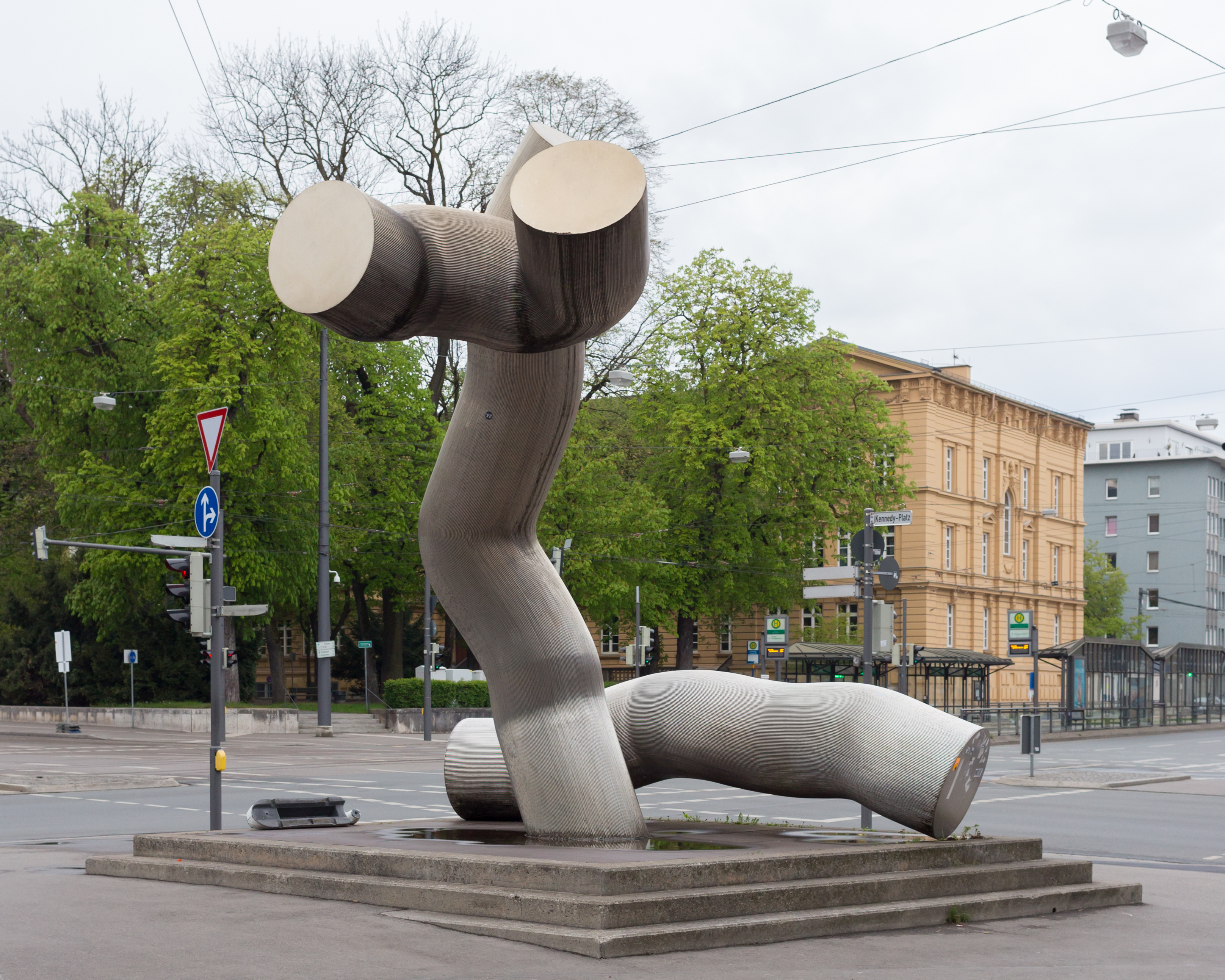 Ostern (engl. Easter) sculpture by Matschinsky-Denninghoff. Front view. Image taken the morning of Easter Sunday 2017. Although it was no longer night, the sun, the light of this world, was not to be seen through the clouds.